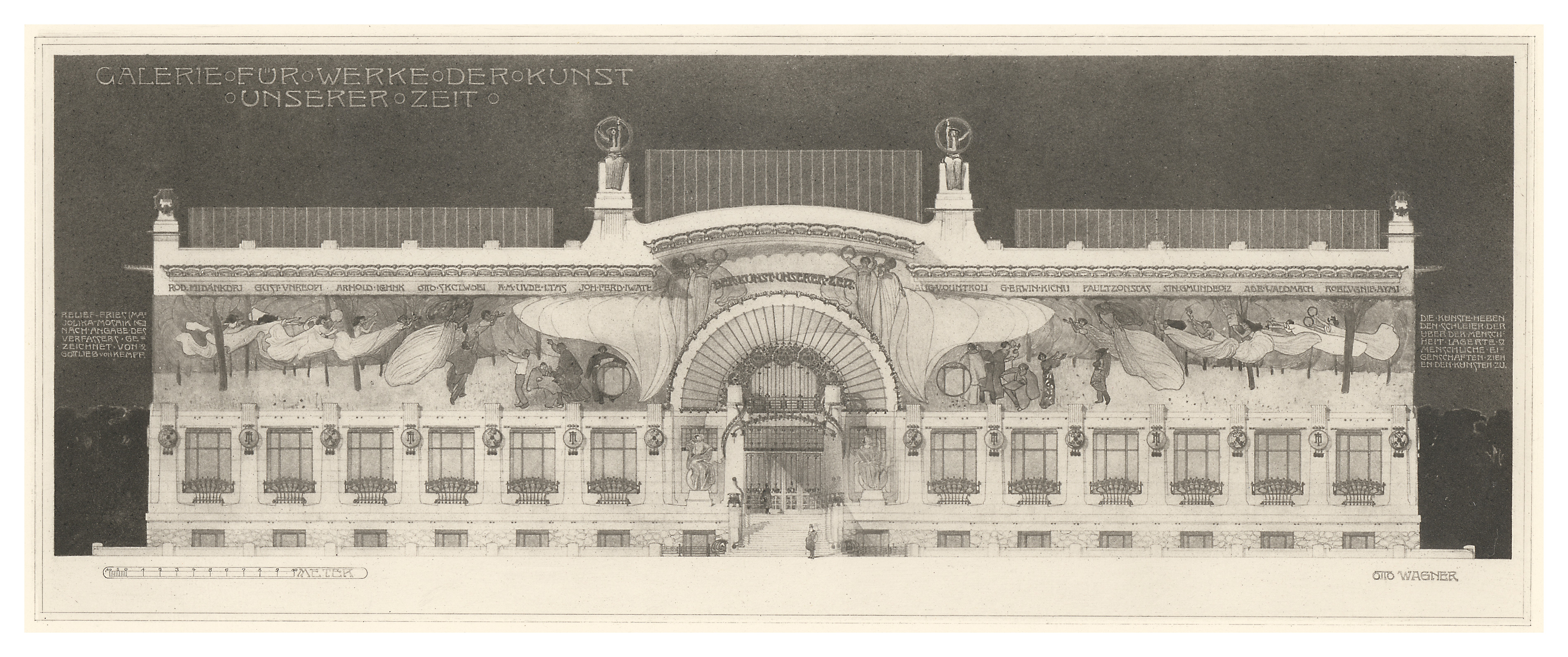 Galerie für die Werke der Kunst unserer Zeit, Bd. III 2. Heft Concept, not realized Scanprojekt Bundesdenkmalamt Österreich This scan or this PDF-file was created within the Austrian Wikipedia-project Denkmalpflege Österreich (German only) supported by Wikimedia Germany and Wikimedia Austria as part of the Wikipedia community-project to collect public domain documents from the library of the Heritage Monuments Board of Austria. This document describes or depicts an object which is located in Austria today. Send requests for uncompressed scans to Hubertl. This work is in the public domain in the United States, and those countries with a copyright term of life of the author plus 100 years or less. This file has been identified as being free of known restrictions under copyright law, including all related and neighboring rights.